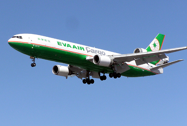 EVA Air Cargo McDonnell Douglas MD11F (B-16113) landing at London (Heathrow) Airport in August 2004.